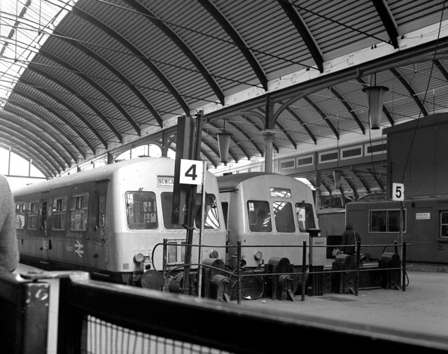 Newcastle Central station With diesel multiple-unit trains as used on the Coast services before the Metro was opened. As this was a Sunday they are seen at Platforms 4 and 5. On weekdays, Platforms 1 and 2 were used.